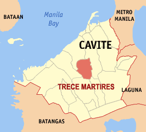 Map of Cavite showing the location of Trece Martires